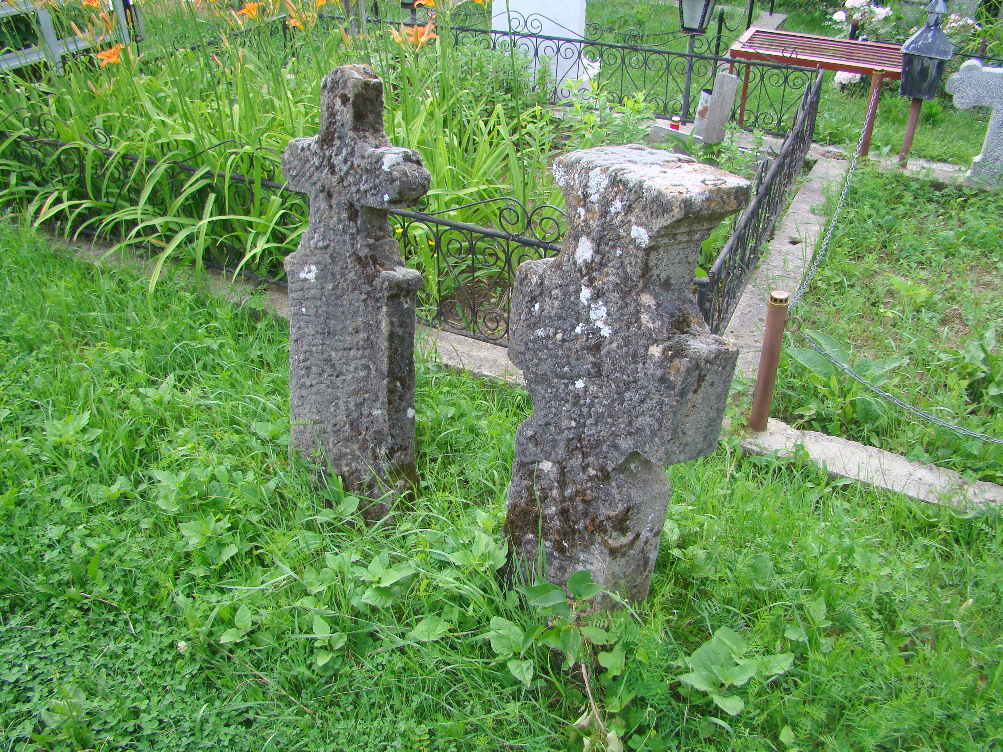 All Saints' church in Râmești, Vâlcea county, Romania